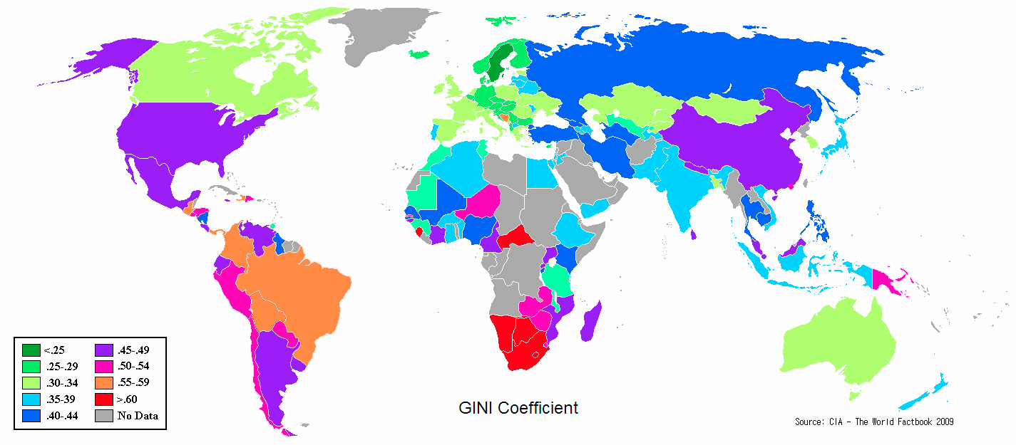 Differences in national income equality around the world as measured by the national Gini coefficient. The Gini coefficient is a number between 0 and 1, where 0 corresponds with perfect equality (where everyone has the same income) and 1 corresponds with perfect inequality (where one person has all the income, and everyone else has zero income).